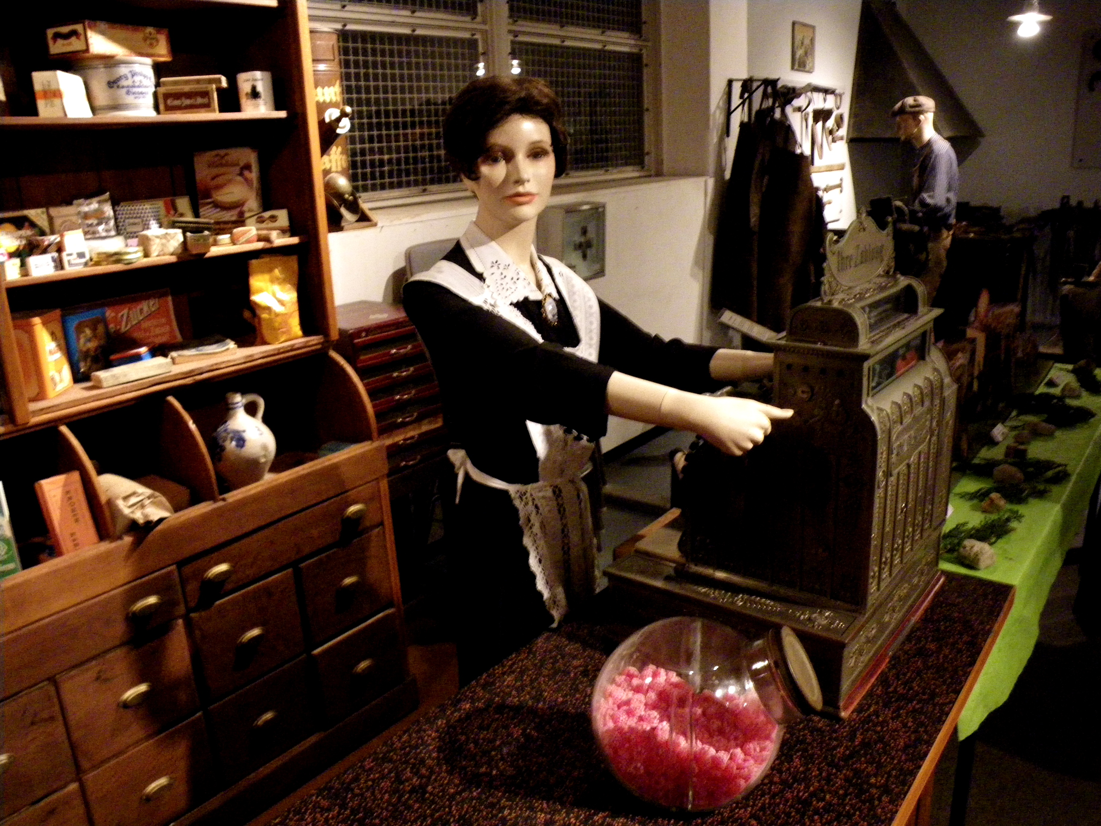 This photo was taken in the "Heimatmuseum Kirchen" in Kirchen (Sieg), Germany. It shows an old shop and a blacksmith.